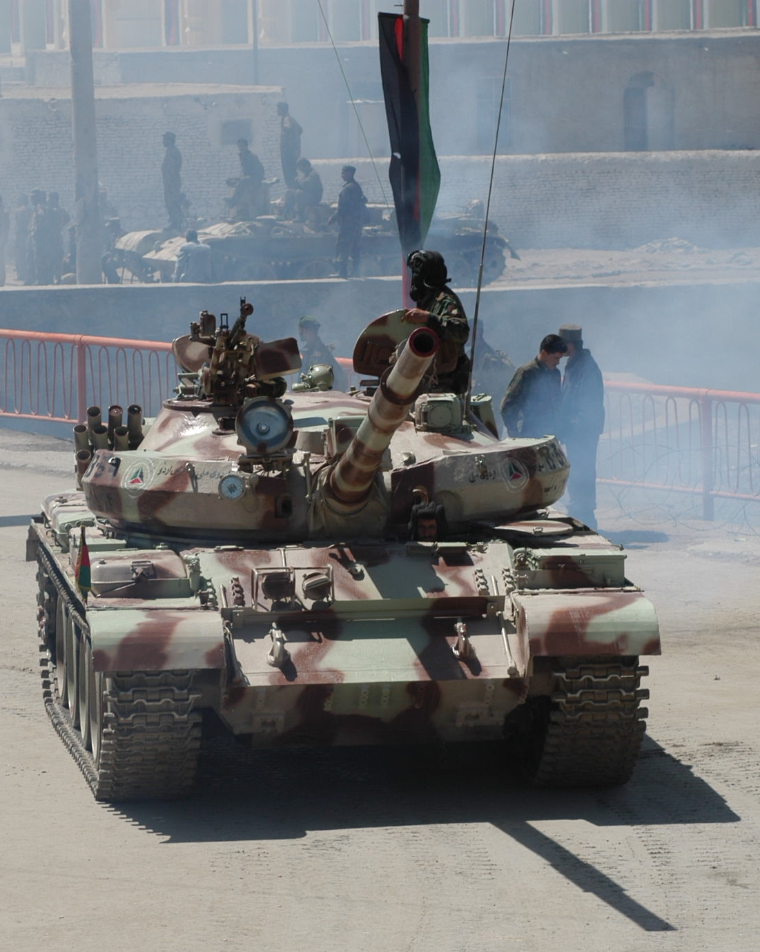 T-62M main battle tank of the Afghan National Army at Kabul.